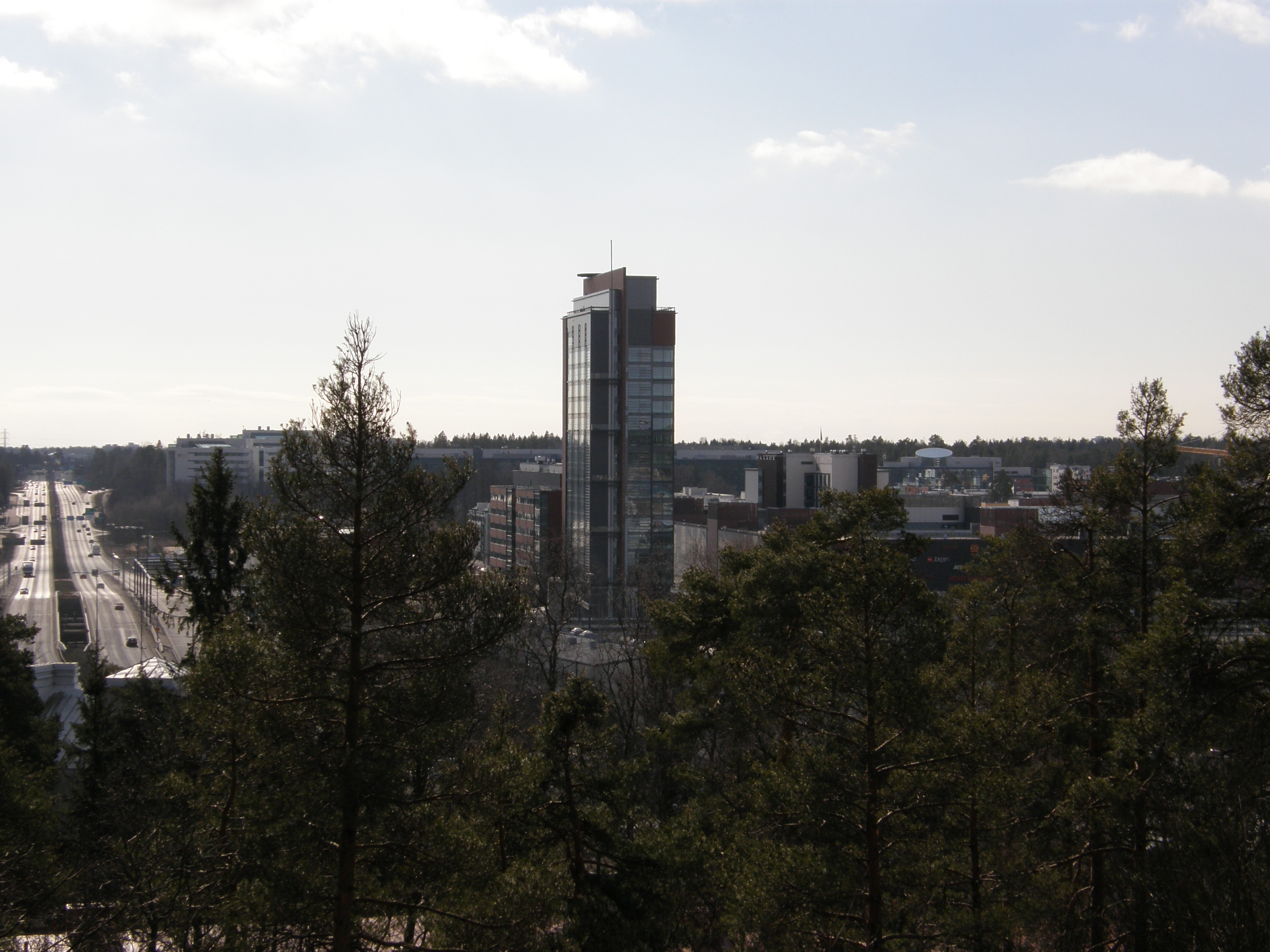 Panorama Tower in Leppäväära, Espoo, Finland. Ring road I (regional road 101) on the left.